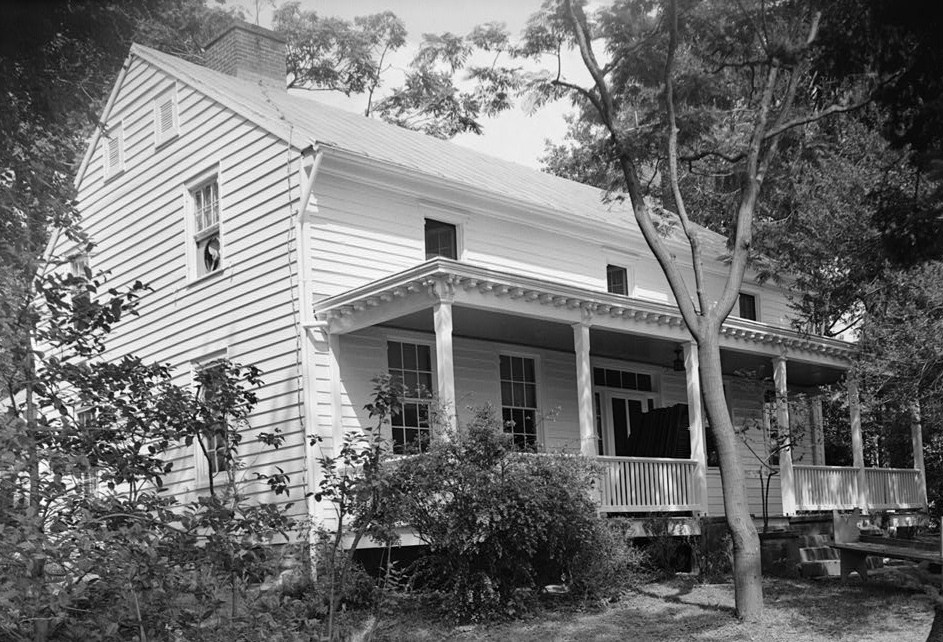 Cherry Hill, 312 Park Avenue, (Falls Church, Virginia) cropped This file comes from the Historic American Buildings Survey (HABS), Historic American Engineering Record (HAER) or Historic American Landscapes Survey (HALS). These are programs of the National Park Service established for the purpose of documenting historic places. Records consist of measured drawings, archival photographs, and written reports. When reusing please credit: Library of Congress, Prints & Photographs Division, VA,30-FALCH,7-2 This tag does not indicate the copyright status of the attached work. A normal copyright tag is still required. See Commons:Licensing. This work is in the public domain in the United States because it is a work prepared by an officer or employee of the United States Government as part of that person’s official duties under the terms of Title 17, Chapter 1, Section 105 of the US Code. Note: This only applies to original works of the Federal Government and not to the work of any individual U.S. state, territory, commonwealth, county, municipality, or any other subdivision. This template also does not apply to postage stamp designs published by the United States Postal Service since 1978. (See § 313.6(C)(1) of Compendium of U.S. Copyright Office Practices). It also does not apply to certain US coins; see The US Mint Terms of Use. This file has been identified as being free of known restrictions under copyright law, including all related and neighboring rights. Object location38° 53′ 08″ N, 77° 10′ 24″ W